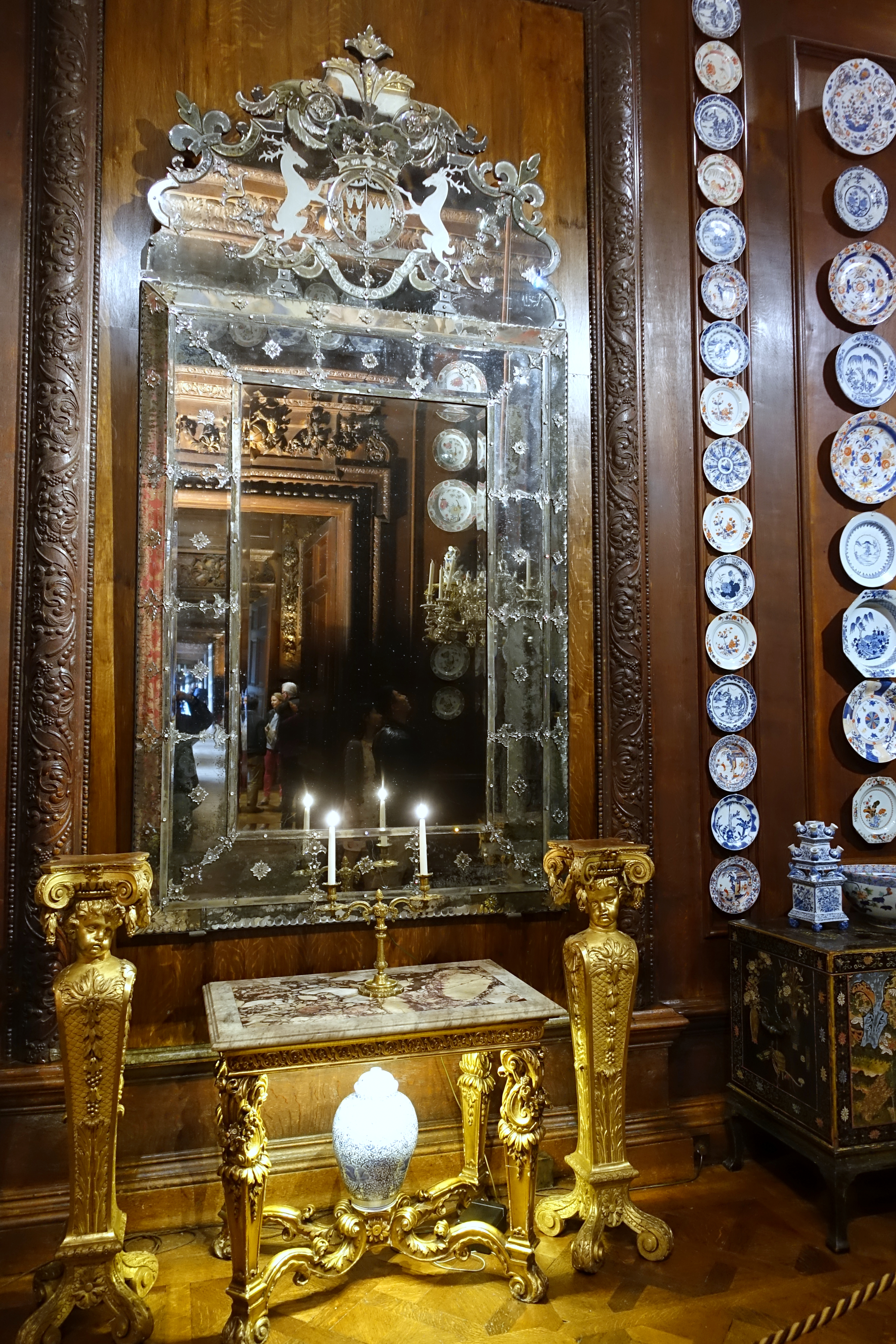 Item displayed in the State Closet (State Dressing Room), Chatsworth House - Derbyshire, England.